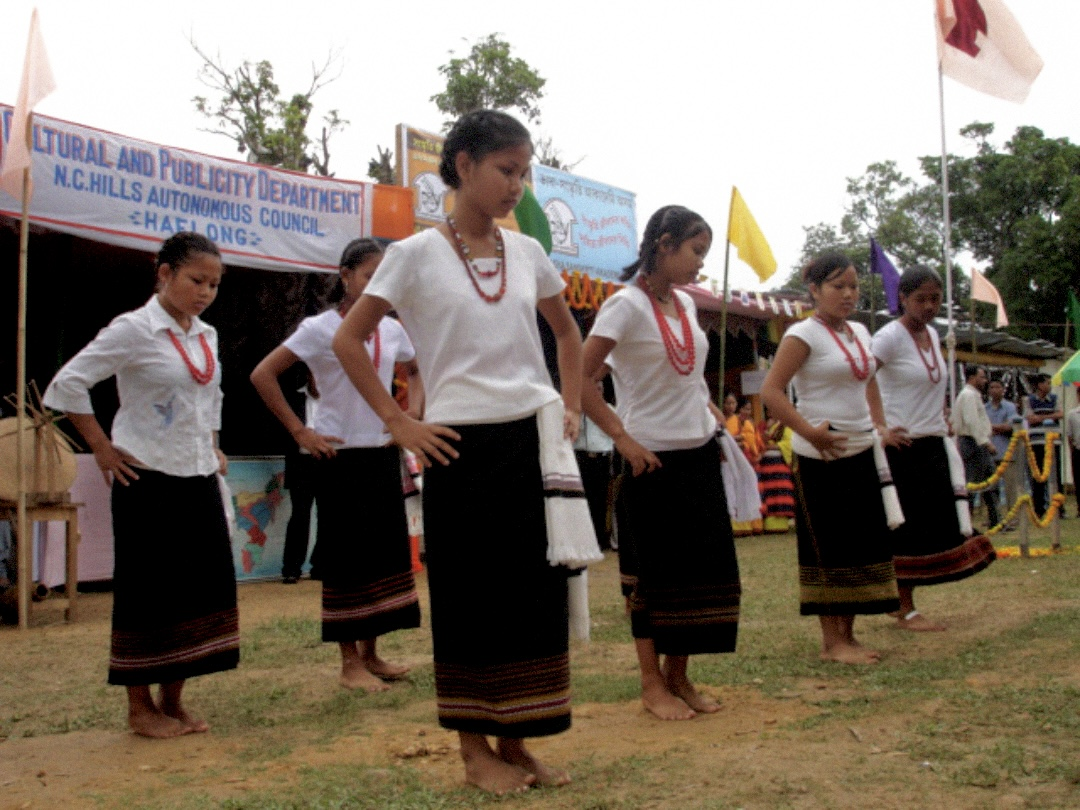 khelma dance